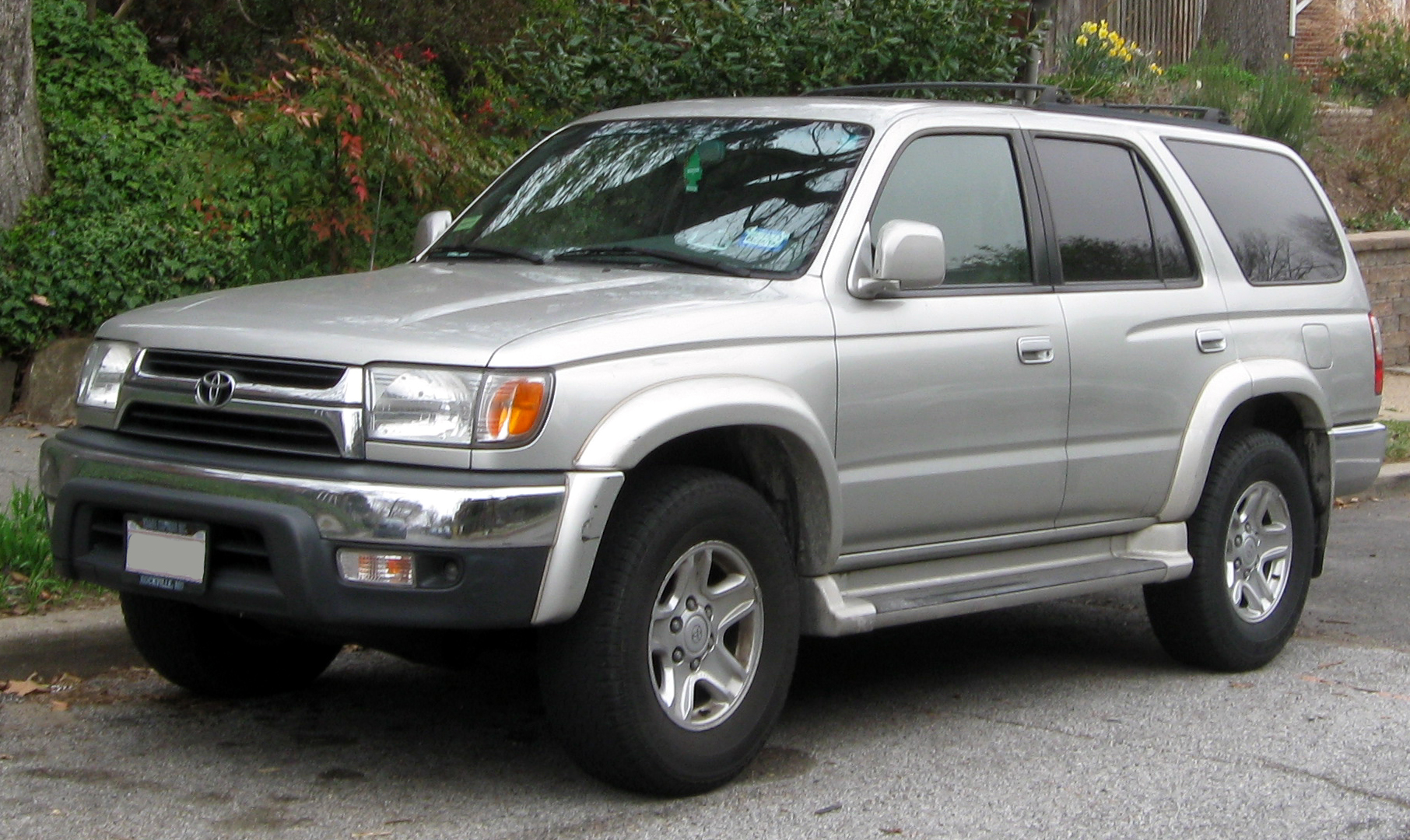 2001-2002 Toyota 4Runner photographed in Washington, D.C., USA.